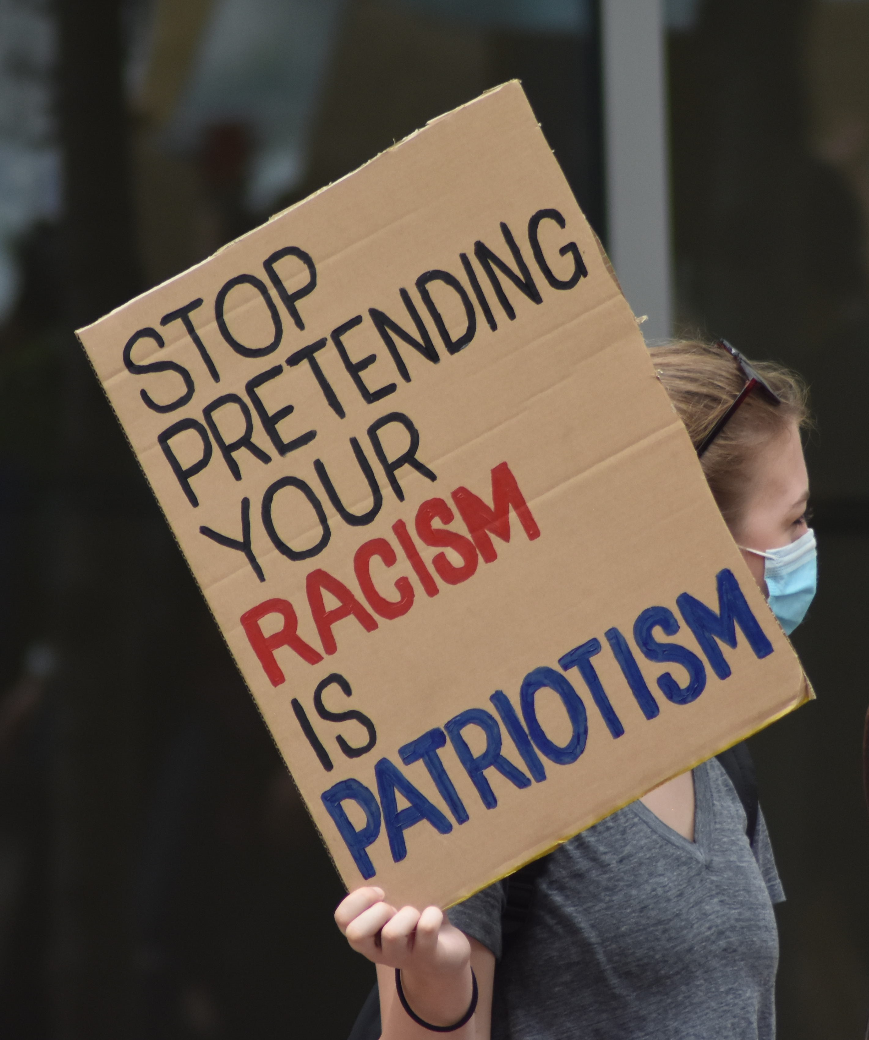 George Floyd protest marching from Maxwell Place Park to Pier A Park in Hoboken, Jersey on June 5, 2020